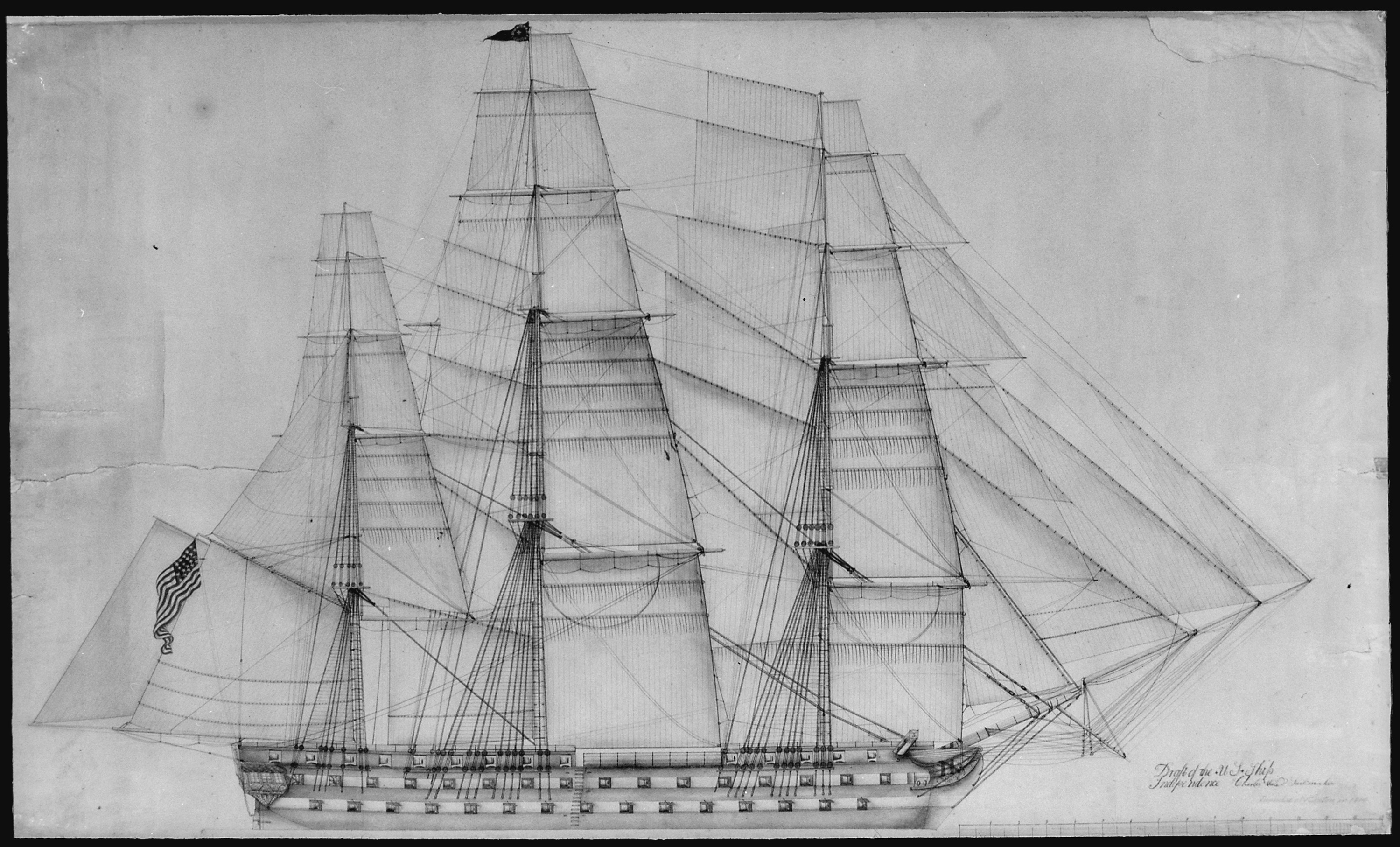 General notes: Artwork.